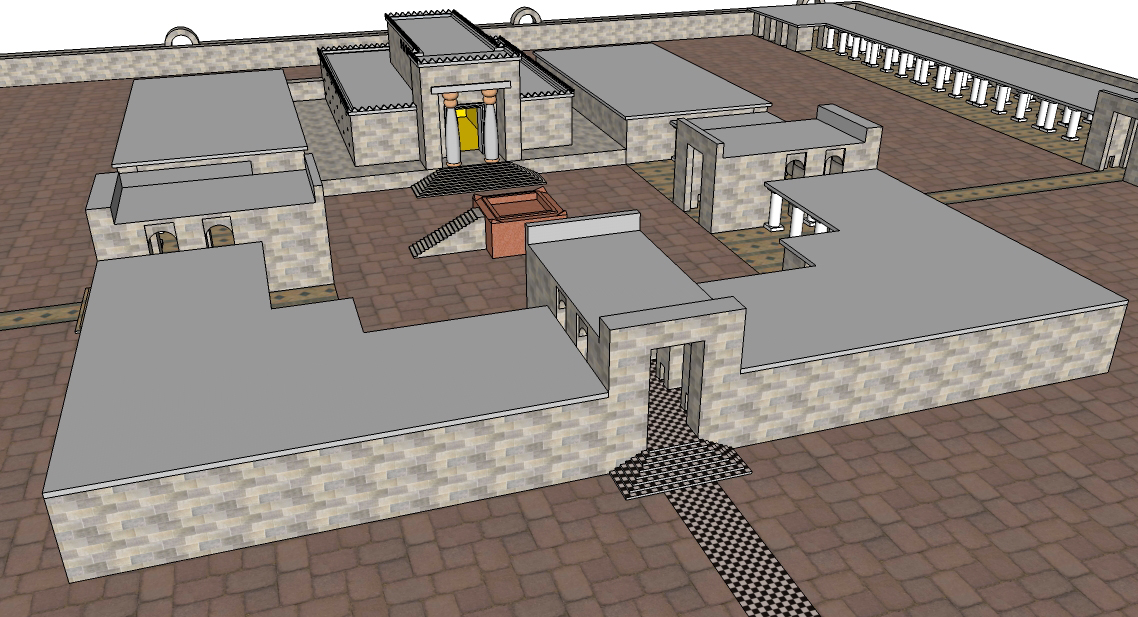 This was a candidate to be copied to Wikimedia Commons. Original uploader: Epictatus -Talk Gabriel Fink. -I Gabriel Fink created this work entirely by myself.